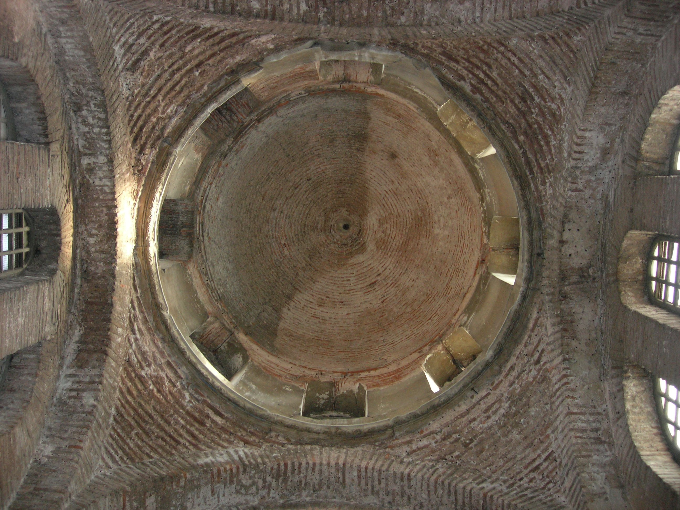 The dome of the former Church of the monastery of Constantine Lips( today mosque of Fenari Isa) in Istanbul